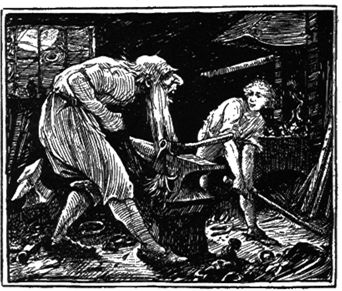 Illustration by H.J. Ford from the 1889 edition of 'The Blue Fairy Book' edited by Andrew Lang